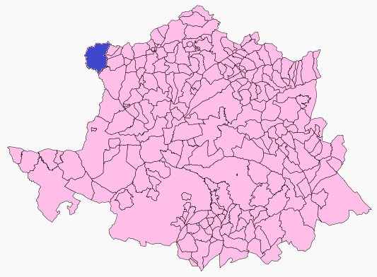 Valverde del Fresno